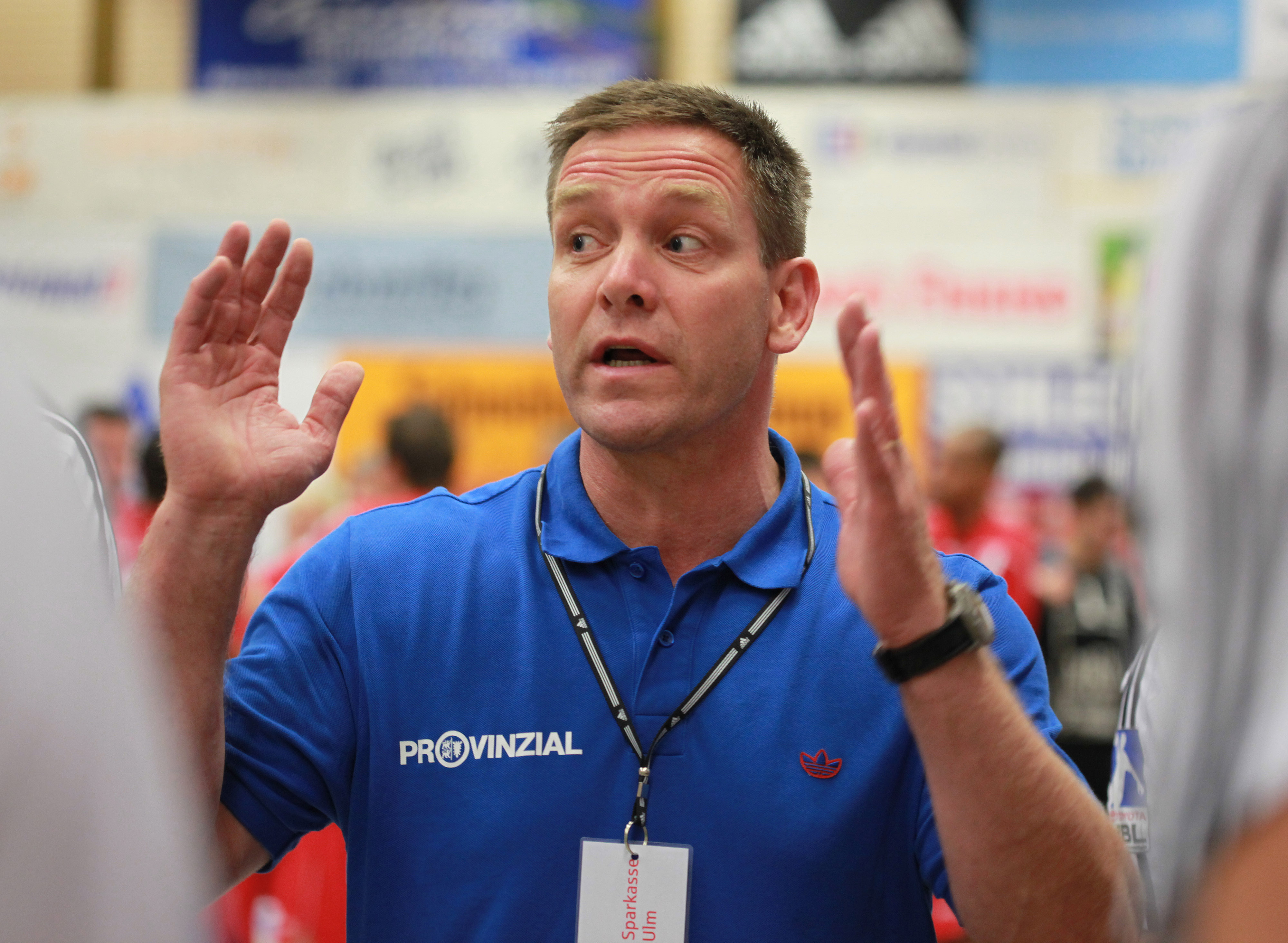 Alfreð Gíslason, Icelandic handball coach from THW Kiel, on August 22nd 2009 in Ehingen (Germany), during the Schlecker Cup 2009